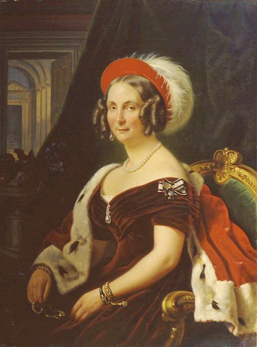 Princess Frederica Wilhelmina of Prussia (1796-1850)